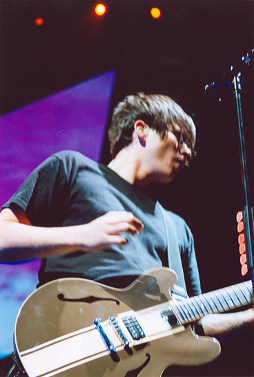 Tom DeLonge at the Verizon Wireless Music Center in Noblesville, Indiana.